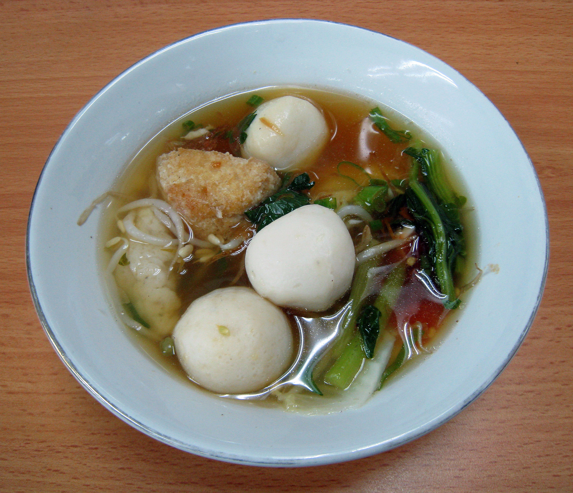 Fried tofu with bakso ikan (fish balls) soup. Chinese Indonesian cuisine, Jakarta, Indonesia.